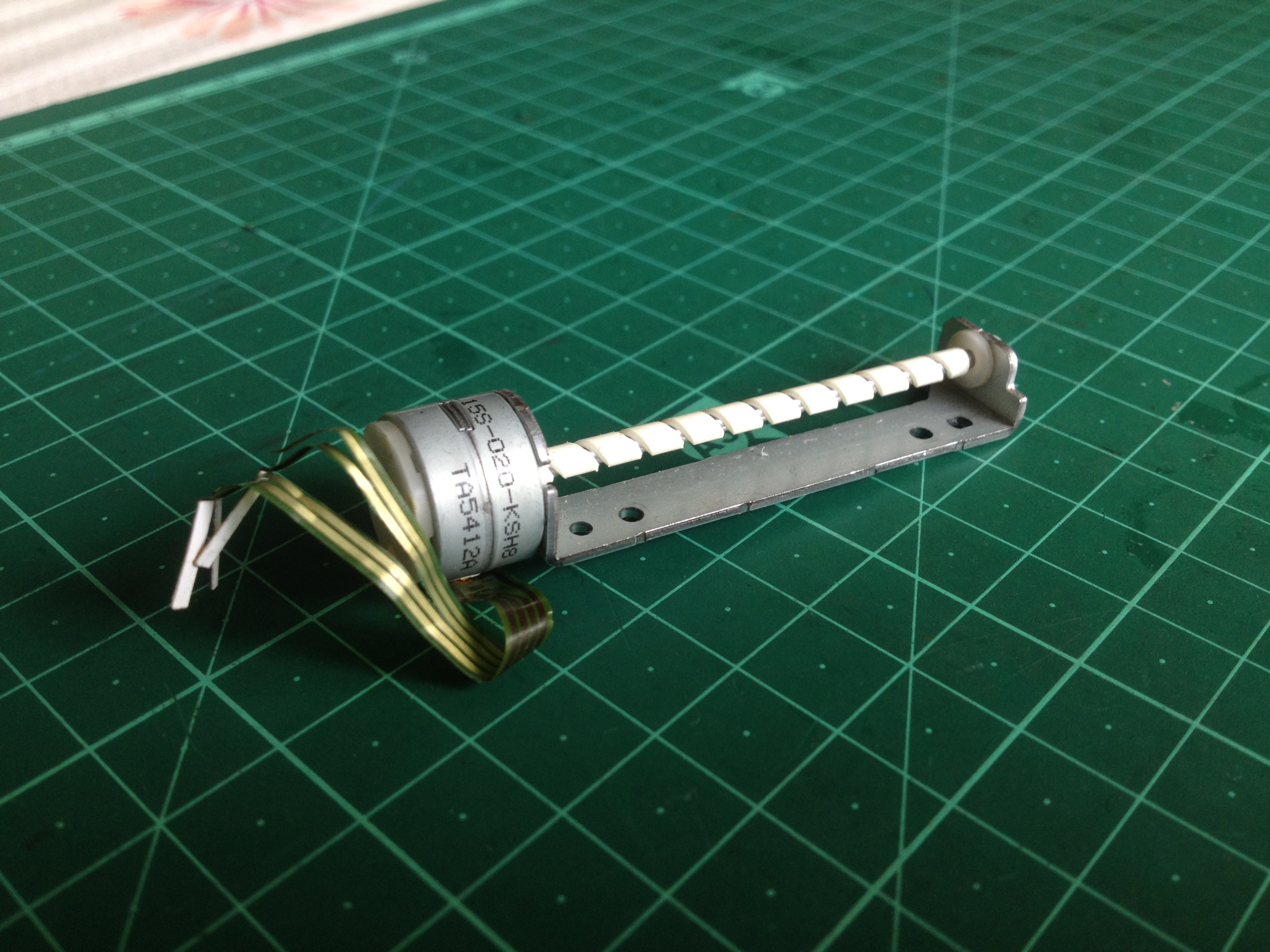 This stepper motor is among the ones which are used to move the laser assembly responsible for reading and writing data from and to a CD or a DVD.